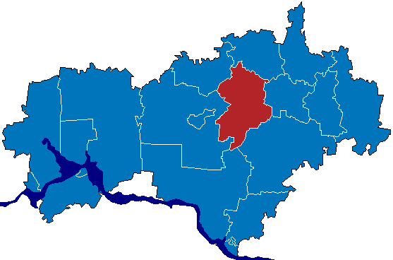 Site of the Sovetsky area of Mari El on a republic map